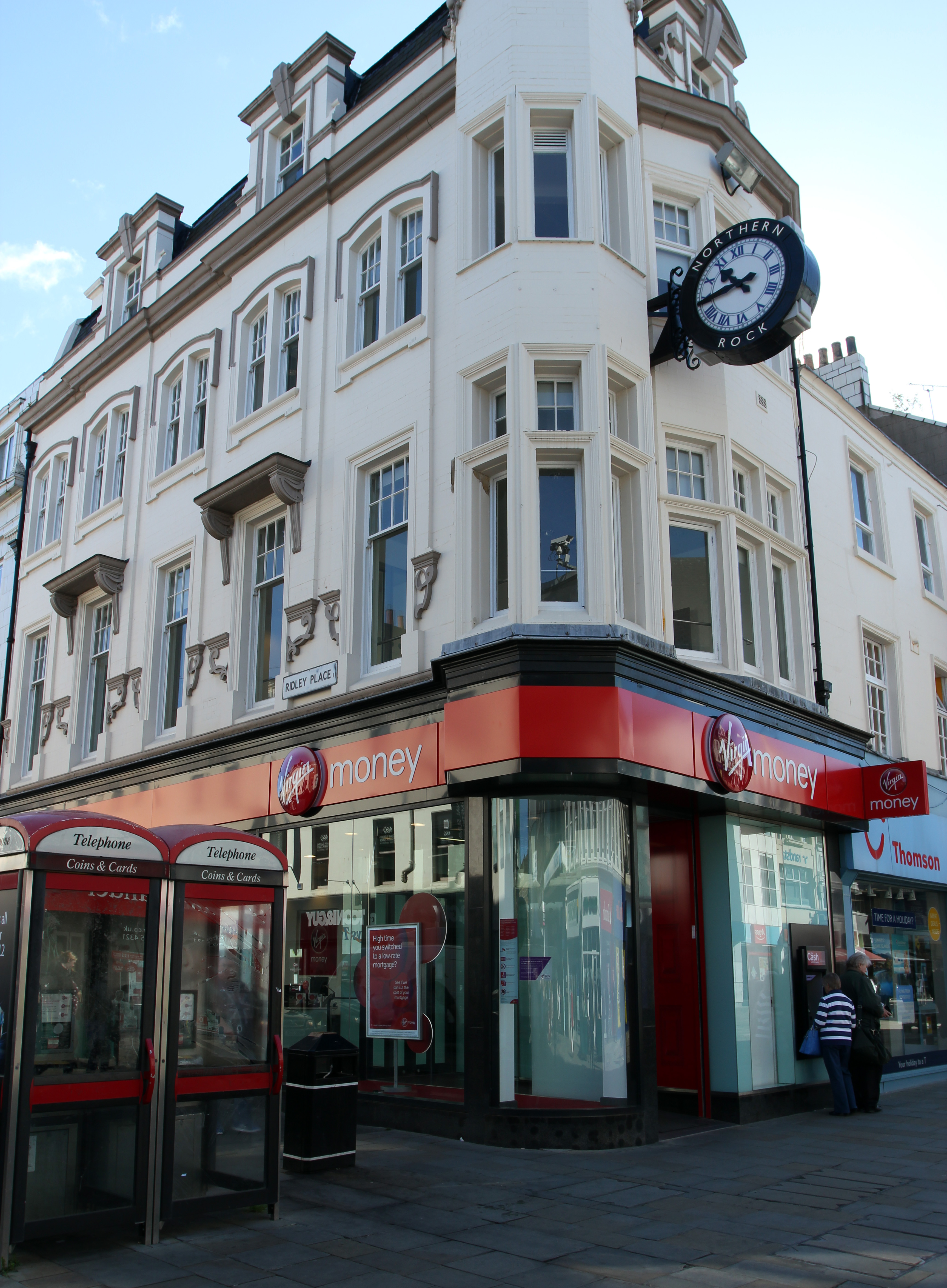 Virgin Money in Newcastle upon Tyne (Northumberland Street). This branch was formerly a branch of Northern Rock - the clock bearing that name remains.